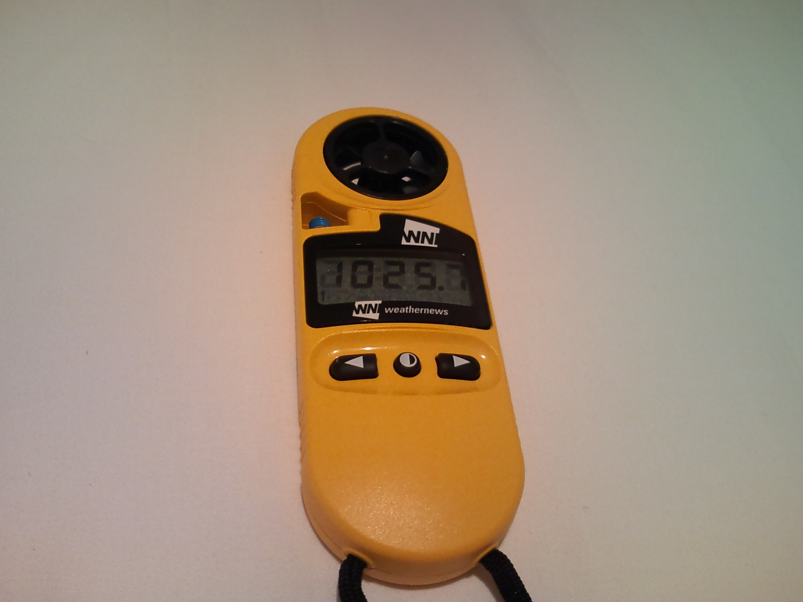 Pocket Weather Meter from Weathernews inc.(Present from WNI Inc.)